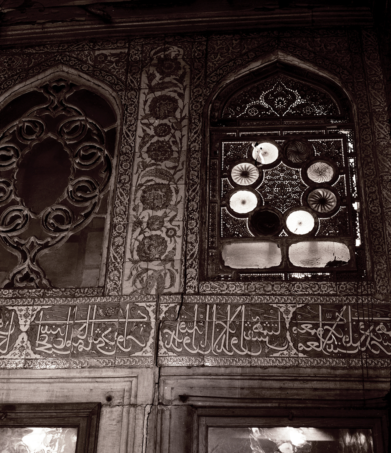 Yeni Valide Mosque Complex, located in Eminönü, across the flower market, has the longest construction duration of a complex in Ottoman history. The building begun in 1589 in the name of Safiye Sultan, the wife of Murat III. After a while the construction stopped and the complex was finished on the order of Valide Turhan Sultan, the mother of Mehmet IV. The Hünkar Mansion, having the best view of the complex is located right next to the mosque. Consisting of two large rooms, one iwan and one bathroom, the building is connected to the Hünkar’s lodge through a long corridor, in order to provide Sultan’s passing to the mosque. Comprising rare ornamentations of the 17th century like mother-of pearl, plaster work and wooden works, the mansion stands out with it’s unique ceramics ornamentation, produced in İznik. The building was restorated in 2004 with the colloboration of İstanbul Chamber of Commerce, Pious Foundations and Preservation Council, with 50 specialists. SALT Research, Ali Saim Ülgen Archive Eminönü’nde Mısır Çarşısı’nın karşısında yer alan Yeni Valide Camii Külliyesi, Osmanlı tarihi boyunca yapımı en uzun süren külliyedir. İnşasına III. Murat’ın eşi Safiye Sultan adına 1589’da başlandı. Bir süre yapımı durduktan sonra IV. Mehmet’in annesi Valide Turhan Sultan’ın emriyle 1663’te tamamlandı. Külliyenin en göz alıcı manzarasına sahip olan Hünkâr Kasrı caminin bitişiğinde yer alır. Denize bakan biri kubbeli iki büyük oda, bir eyvan ve bir heladan oluşan yapı, sultanın camiye geçişini sağlayan uzun bir koridorla hünkâr mahfiline bağlanır. 17. yüzyıla ait nadir sedefkâri, tunç alçı ve kündekâri süsleme örneklerini barındıran Hünkâr Kasrı, İznik’te üretilmiş ve eşine hiçbir yerde rastlanamayacak türden bir desen düzenlemesine sahip çinileriyle dikkati çeker. Yapı 2004’te Koruma Kurulu, Vakıflar Bölge Müdürlüğü ve İstanbul Ticaret Odası’nın ortaklaşa yürüttüğü proje kapsamında 50 uzman tarafından restore edilmiştir. SALT Araştırma, Ali Saim Ülgen Arşivi